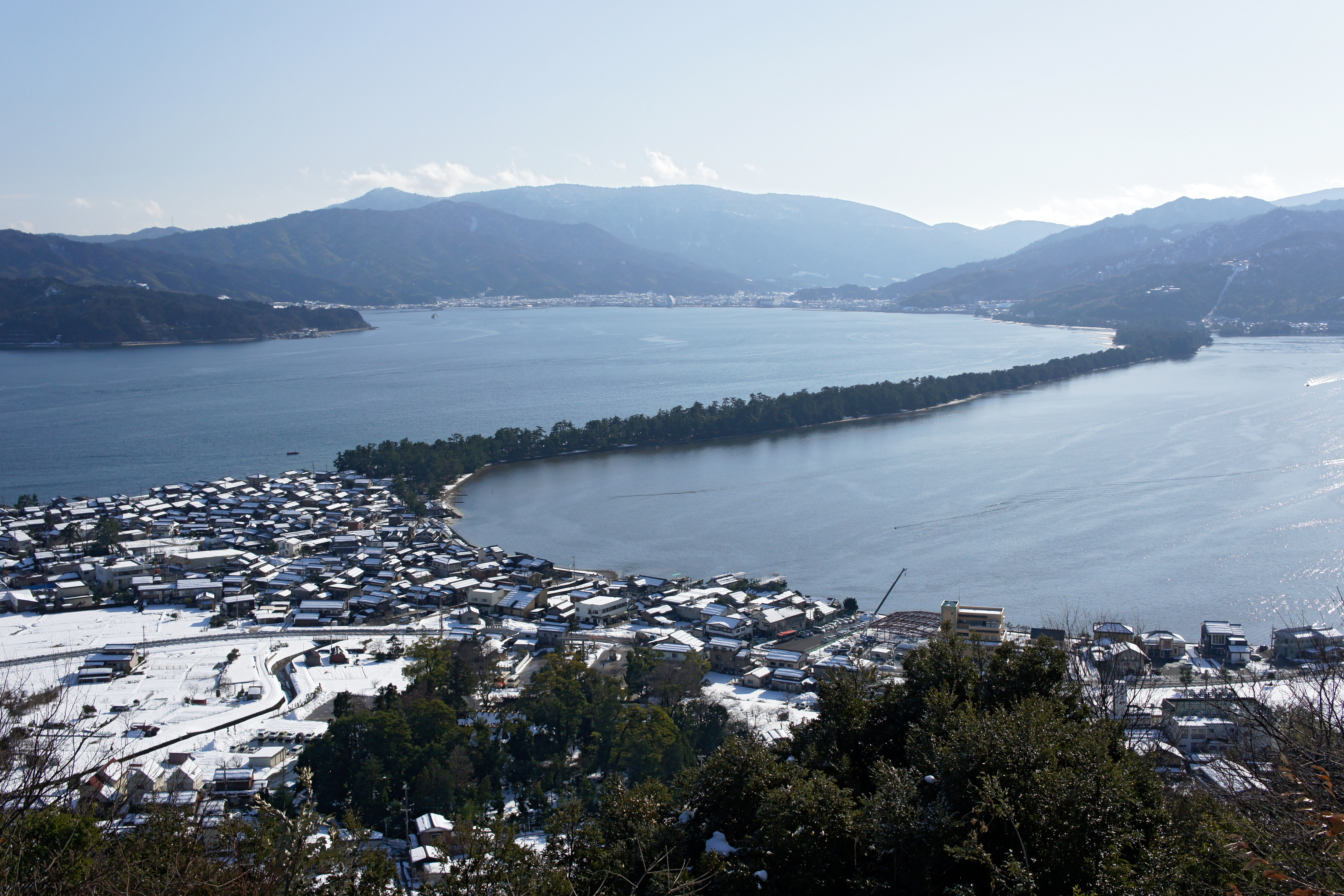 Amanohashidate is one of the Japan's Three Scenic Views in Miyazu, Kyoto prefecture, Japan. This photograph is a view from Kasamatsu Park.